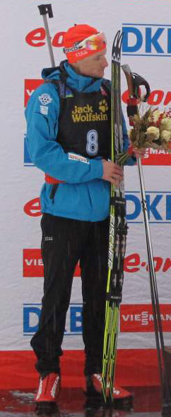 Ondřej Moravec (1984), Czech biathlete (cropped from File:Pokljuka Biathlon World Cup 2012.jpg